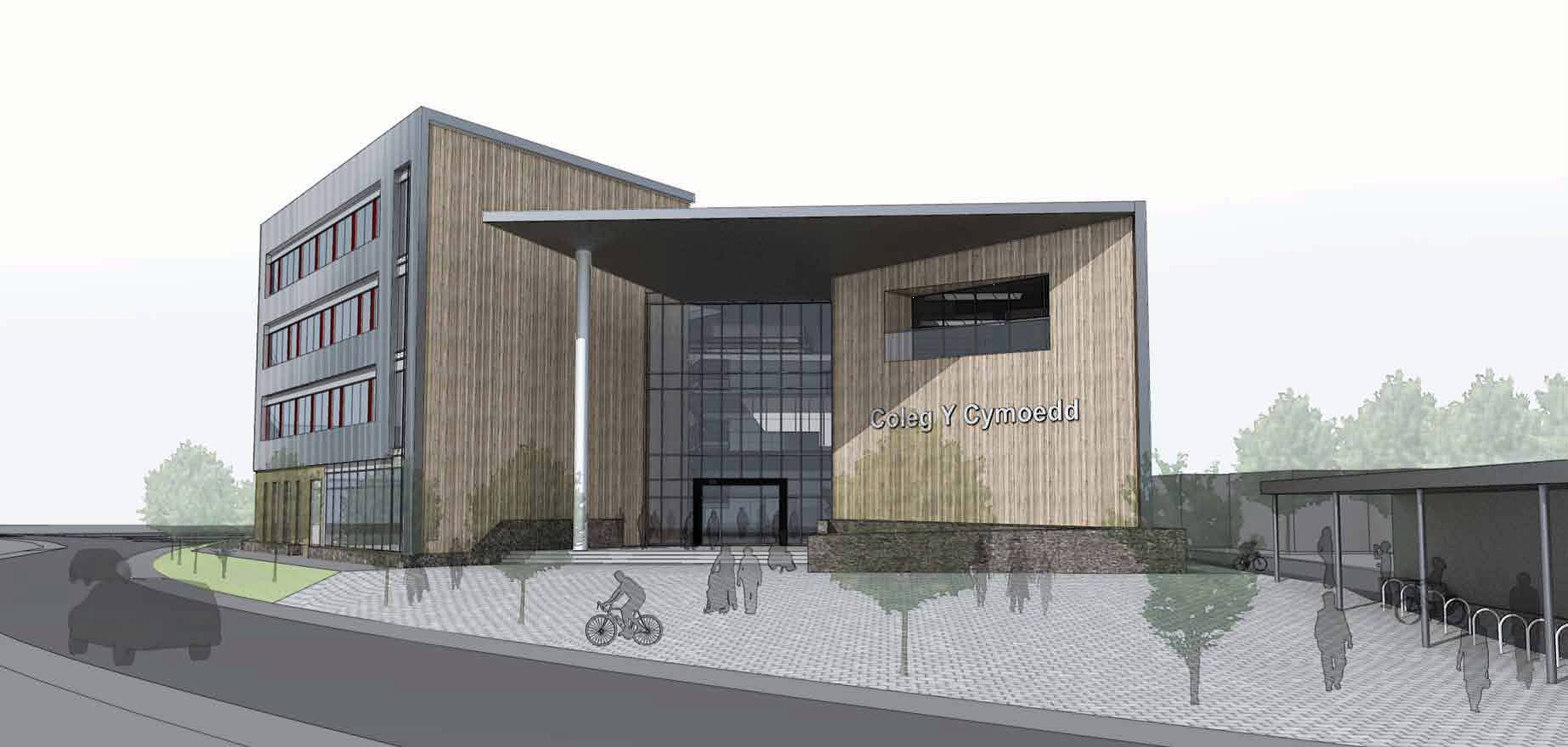 Artist's impression of the Aberdare Campus of Coleg y Cymoedd